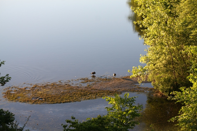 Current condition of Spy Pond